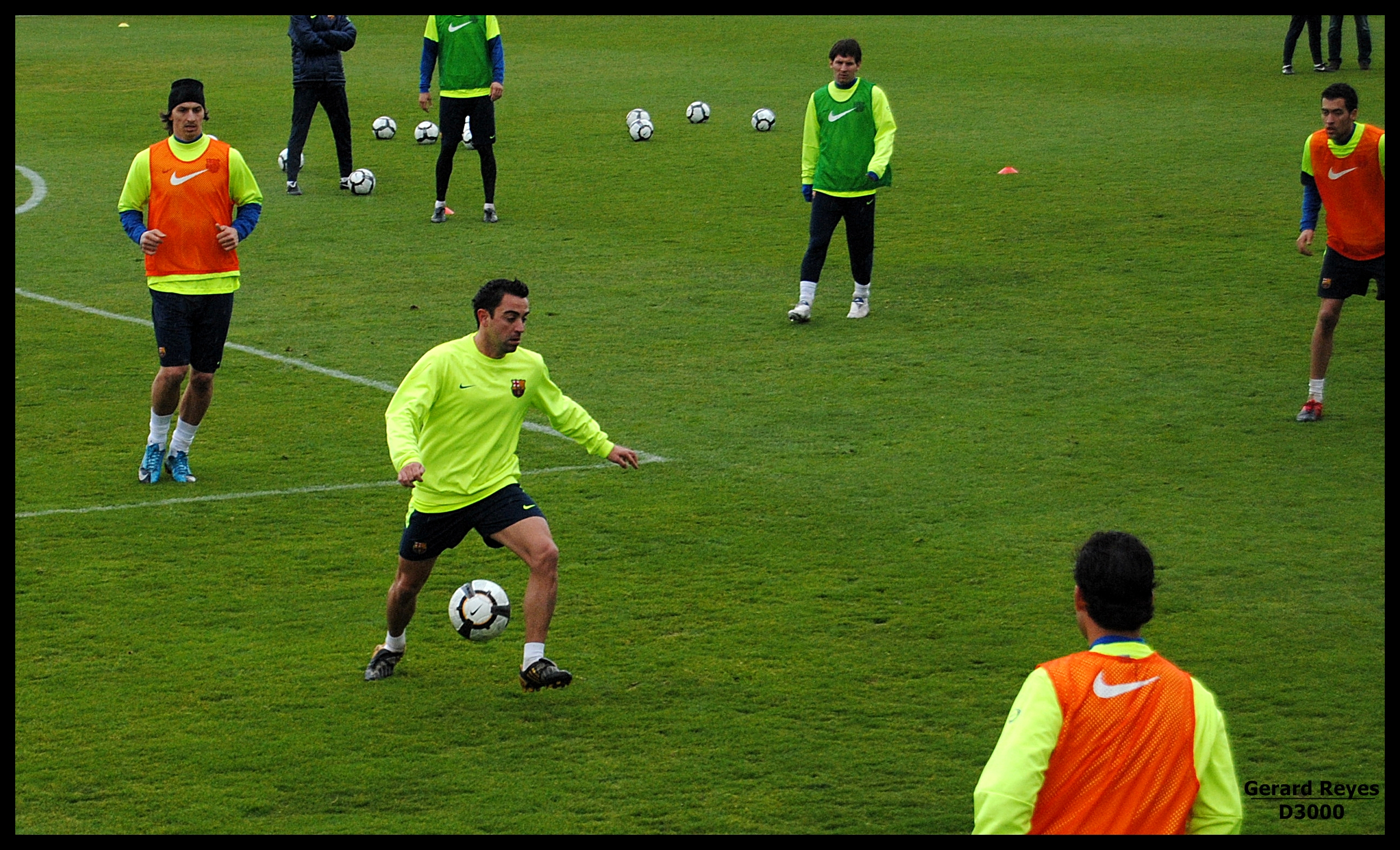 Xavi Hernandez - training with FC Barcelona.